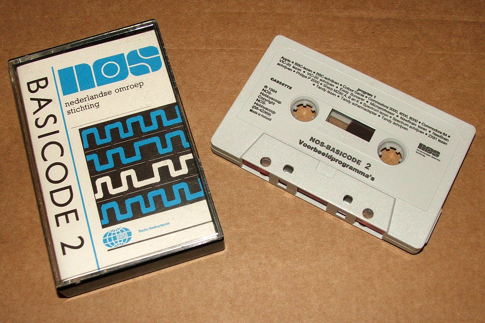 Audio Cassette of Basicode2